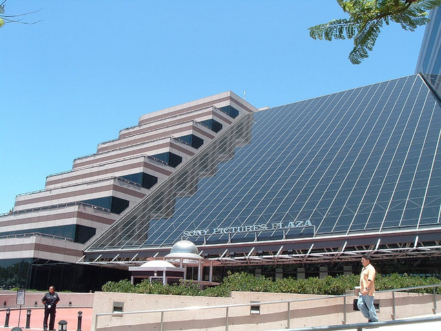 Sony Pictures Plaza in Culver City, CA.